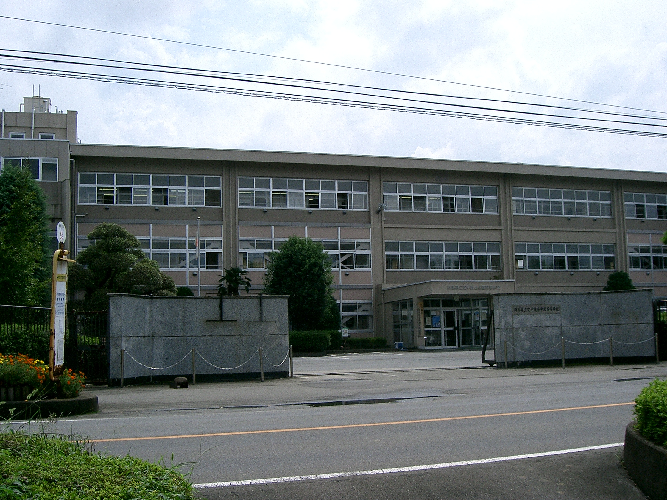 Front view of Annaka General Academic High School in Annaka, Gunma, Japan